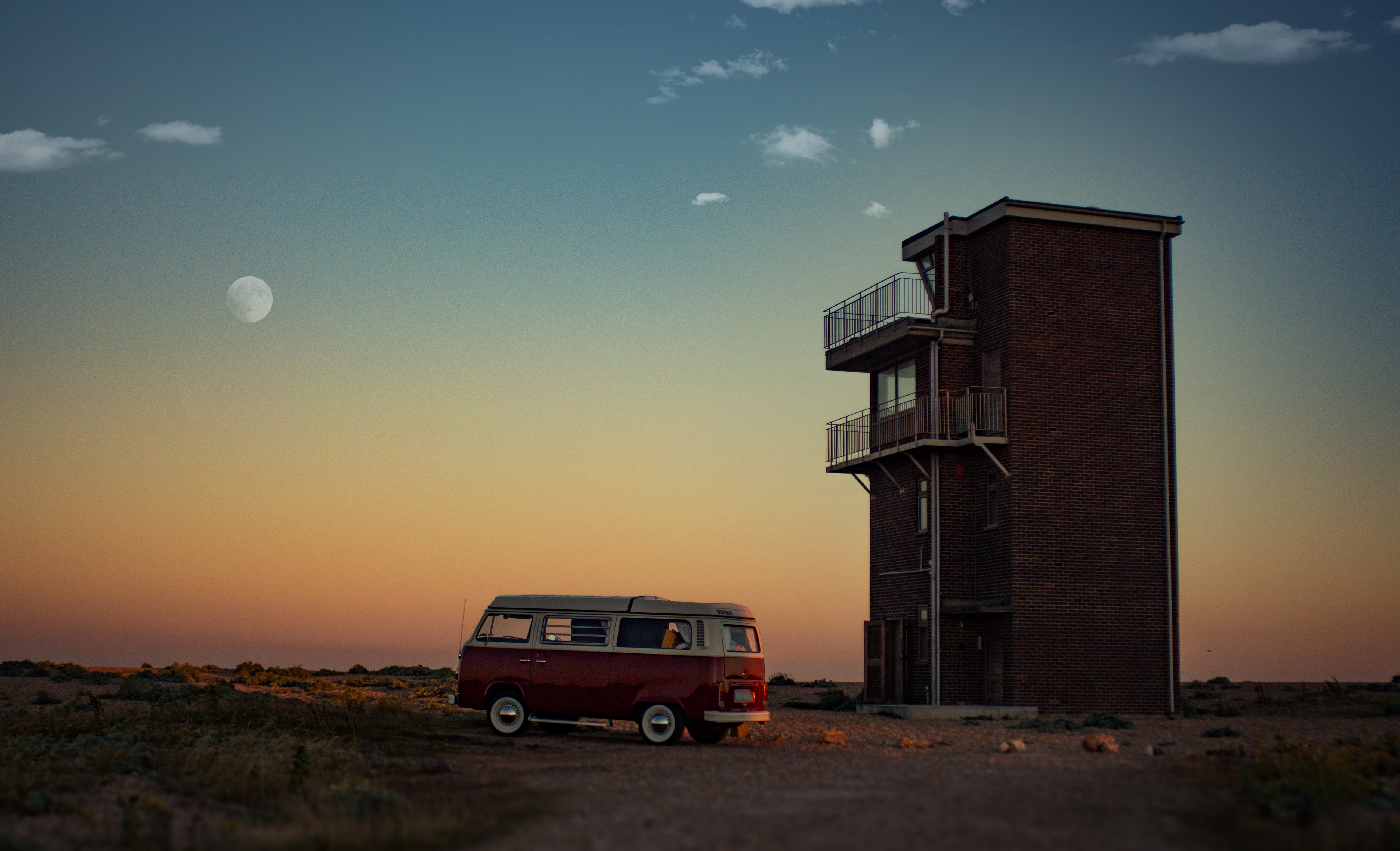 Dungeness, United Kingdom